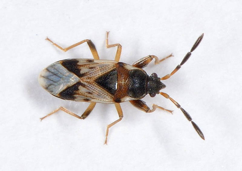 Scolopostethus thomsoni, location: The Netherlands - Mill - Kammerberg, Graafse Raam